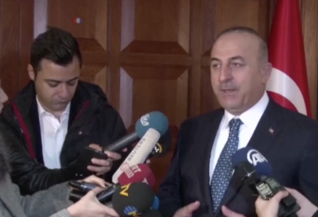 Turkish FM Mevlüt Çavuşoğlu making a statement regarding Germany's bans on Turkish ministers campaigning for the April 2017 referendum